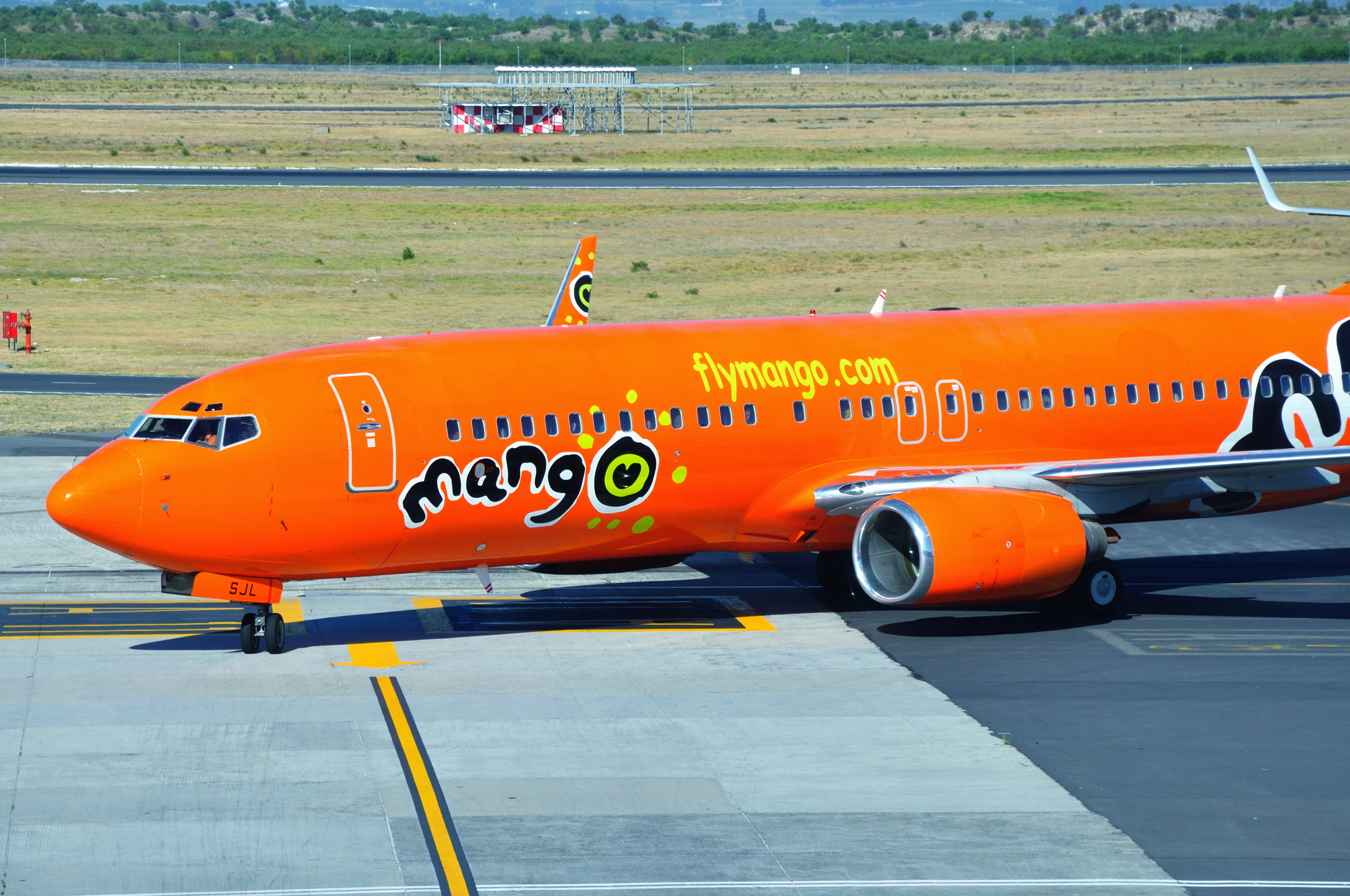 South Africa, Mango's Boeing 737-8BG/W ZS-SJL at Cape Town International Airport